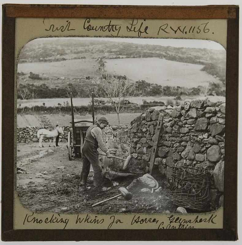 From what I have now read whins, otherwise known as gorse, were 'knocked' (=crushed) to a pulp on a stone and fed to horses to condition them. Visit my vintage photo identification site at